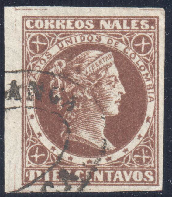 Colombia 10c brown, used oval '(BUCURAM)ANGA (FRAN)CA'. Signed.